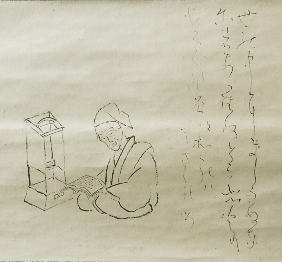 portrait of Ryōkan and calligraphy by him, ink on paper 27.5x42.5cm